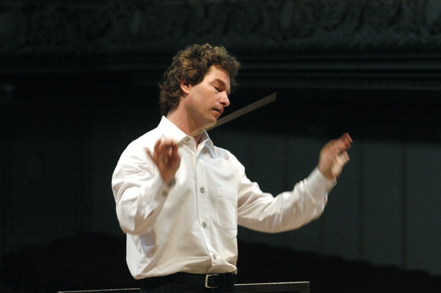 Heiko Mathias Förster during a rehearsal with the Neue Philharmonie Westfalen in the Tonhalle Zurich.